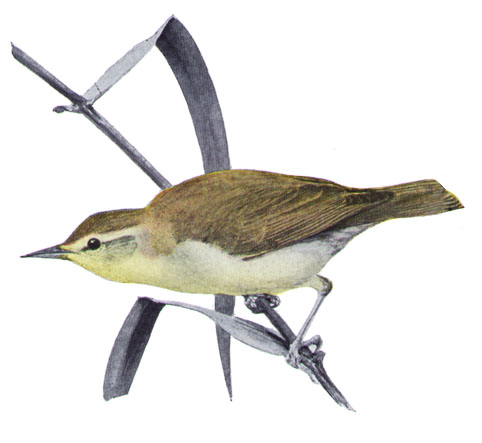 Swainson's Warbler, Limnothlypis swainsonii, offset printing after painting (watercolor or acrylic?). Altered from original on plate.